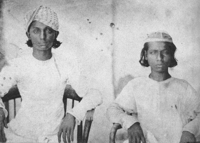 Sons of Last Mughal King Bahadur Shah - Mirza Jawan Bakht (Left) and Mirza Shah Abbas (Right) in 1860s.